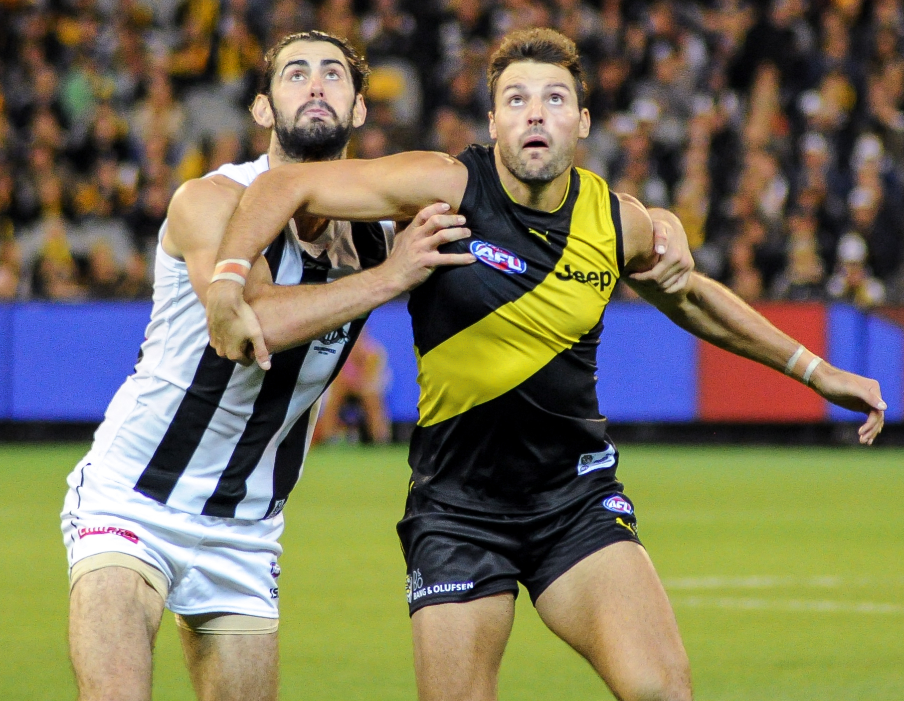 Brodie Grundy and Toby Nankervis ruck contest during the AFL round two match between Richmond and Collingwood on 30 March 2017 at the Melbourne Cricket Ground in Melbourne, Victoria.